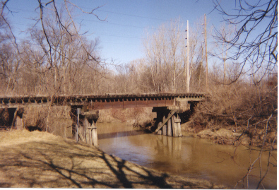 Snapshot image (looking north) of the Vandalia Railroad Bridge over Cedar Creek in Auburn, Indiana, USA taken in February 2001. Uploaded for use in the English-language Wikipedia article "Butler Branch (Indiana)," which is about the rail line variously known as the Eel River Railroad, the Eel River Branch of the Wabash Railroad and the Pittsburgh, Cincinnati, Chicago & St. Louis Railroad. The line ran between Butler, Indiana, and Logansport, Indiana. The line was abandoned in stages between 1954 and 1977. At the time of this upload (22 November 2011), the bridge has suffered visible damage from vandalism.